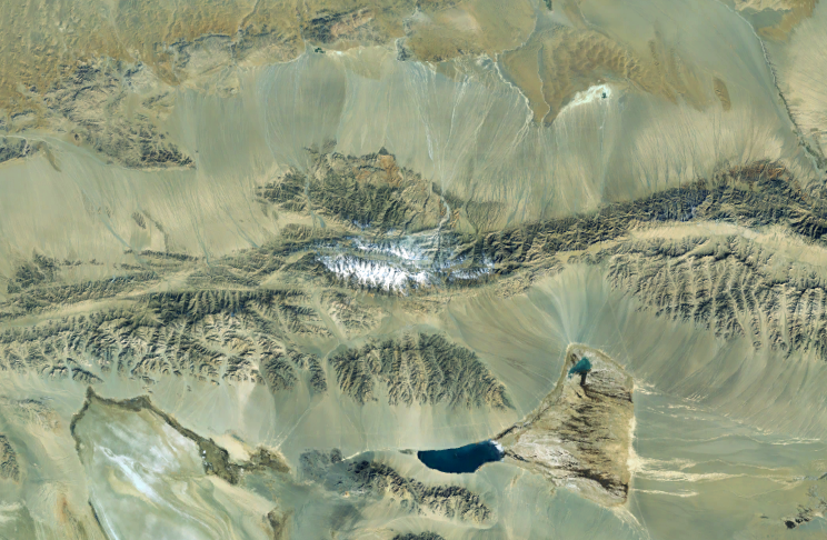 Screenshot from NASA WorldWind of the Aksai restraining bend on the sinistral (left lateral) strike-slip Altyn Tagh Fault as described by Cowgill et al. 2004 with the 5830 m high Altun Shan mountain shown by extent of snow cover